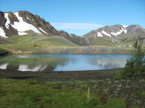 Dollar Lake in July